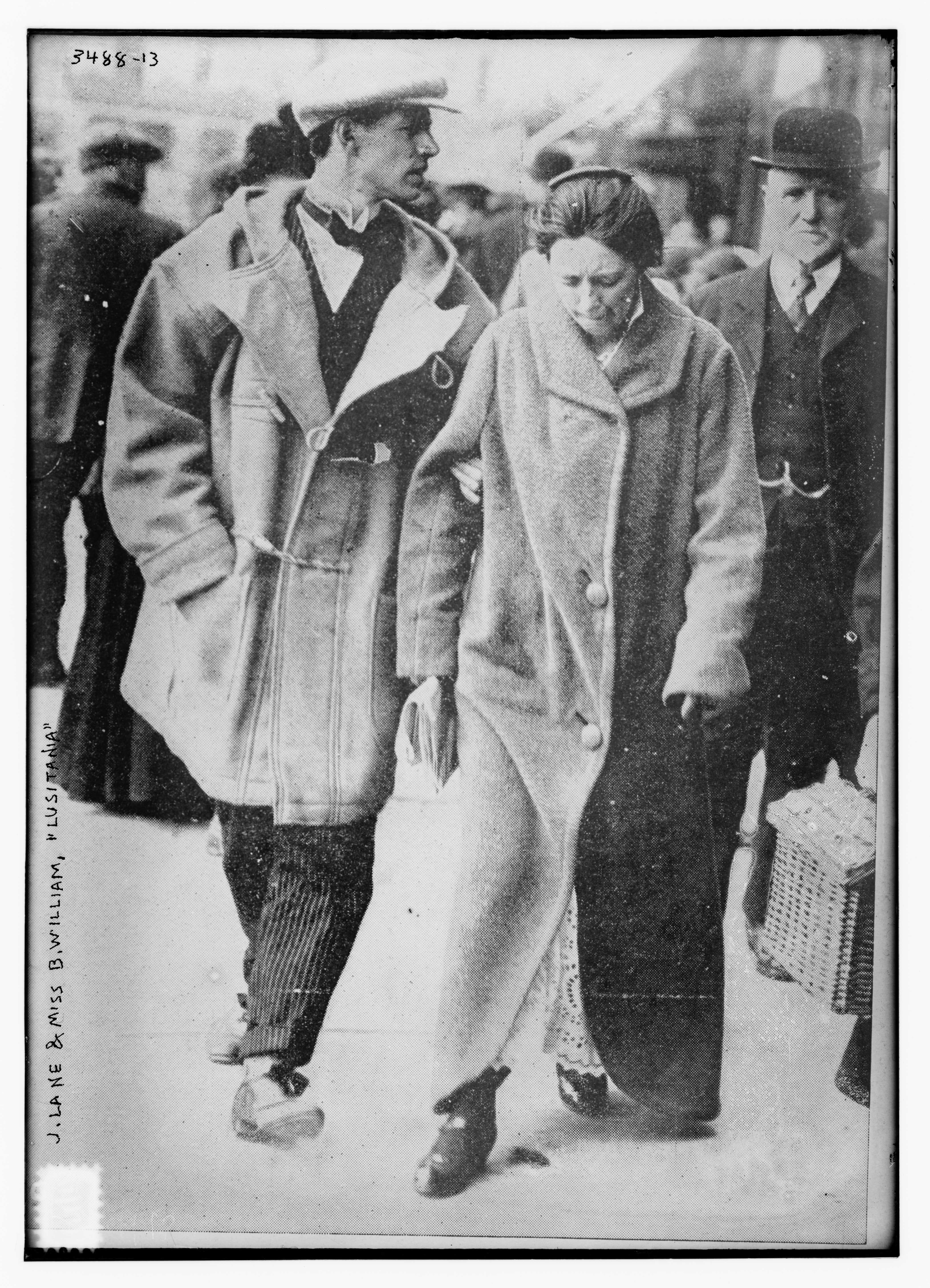 Title: J. Lane and Miss B. William, LUSITANIA Abstract/medium: 1 negative : glass ; 5 x 7 in. or smaller.